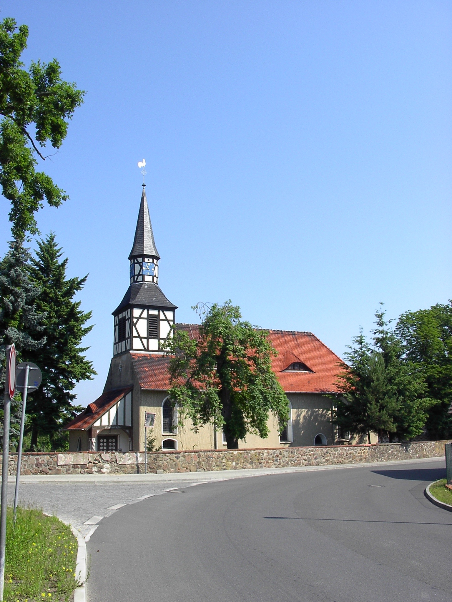 Church in Ragoesen. Ragoesen is a part of the town Belzig in Brandenburg, Germany.